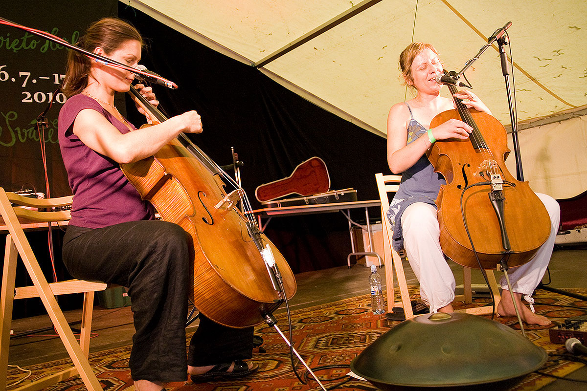 Tara Fuki - Dorota Barová and Andrea Konstankiewiczová on the: Svátek čaje (EU - Těšín).